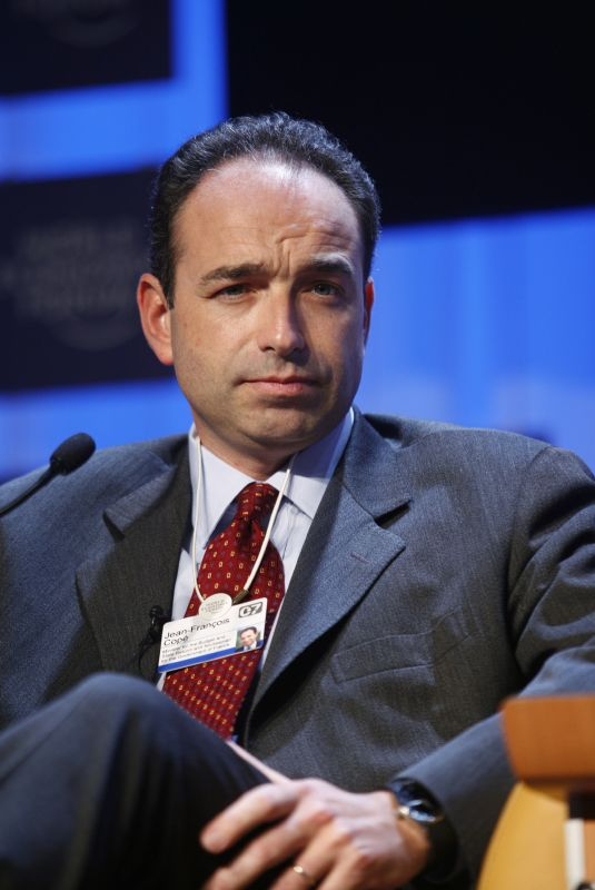 DAVOS/SWITZERLAND, 25JAN07 - Jean-François Copé, Minister of Budget and State Reform of France; Government Spokesman, France, captured during the session 'Rules for a Global Neighbourhood in a Multicultural World' at the Annual Meeting 2007 of the World Economic Forum in Davos, Switzerland, January 25, 2007. Copyright World Economic Forum ( by Yoshiko Kusano